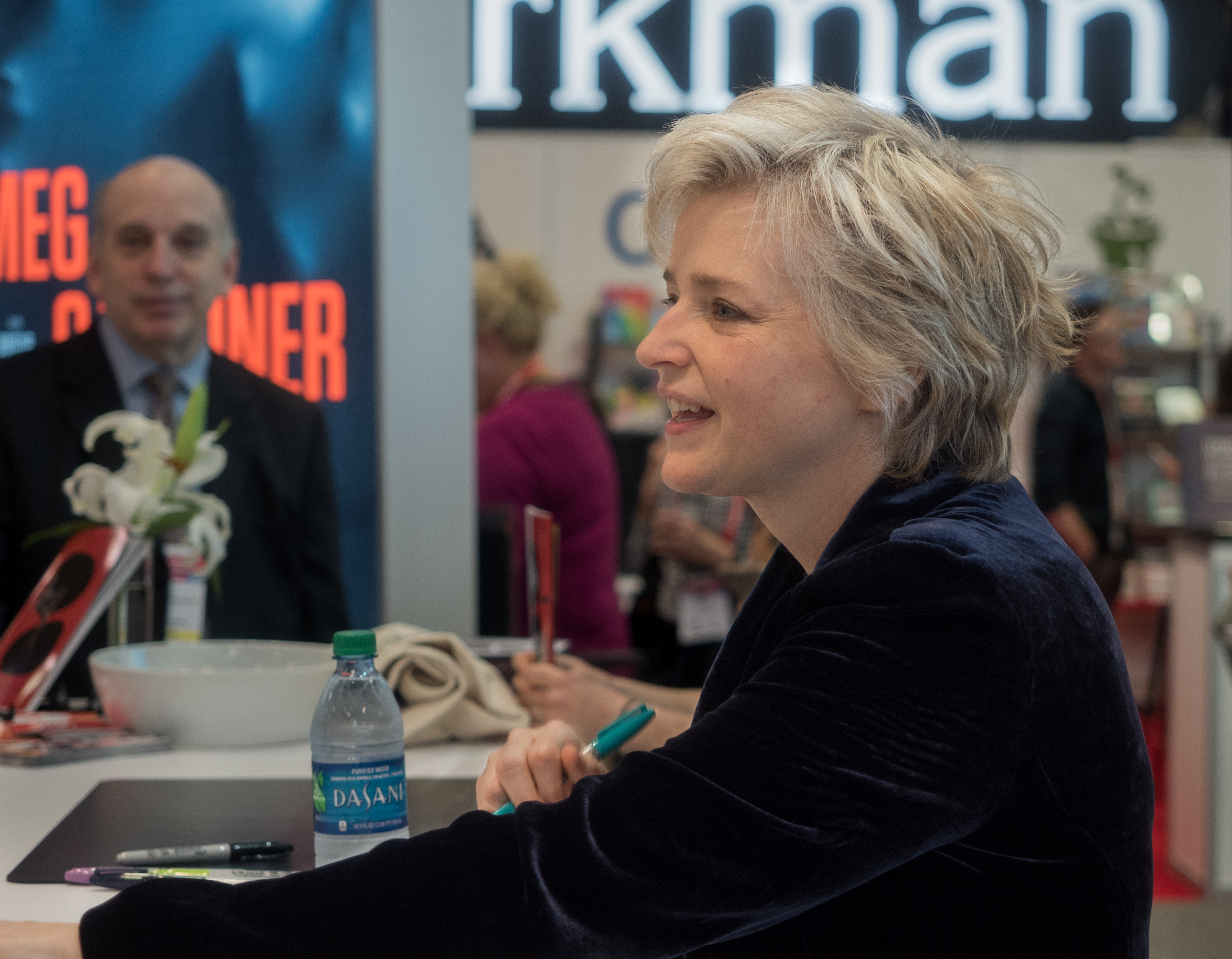 Karin Slaughter at BookExpo at the Javits Center in New York City, May 2019.